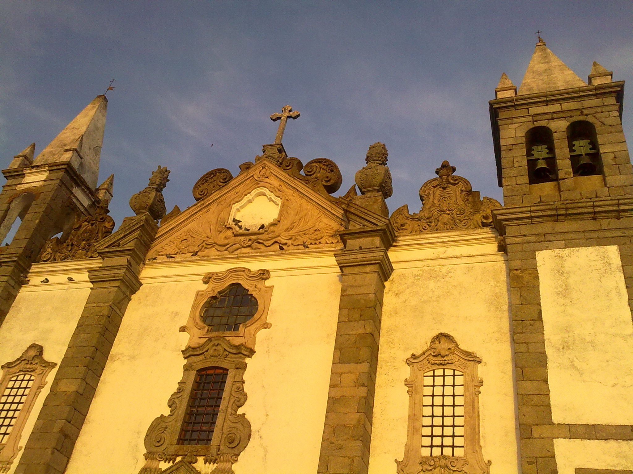 Church of our savior, Alcáçovas, Portugal